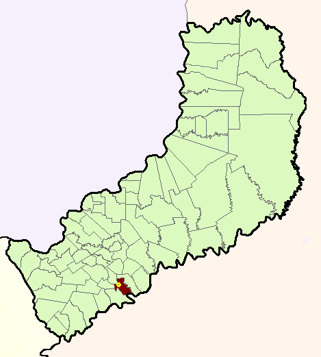 Map showing municipio of Mojón Grande in Misiones Province, Argentina. Big point marks Mojón Grande town.